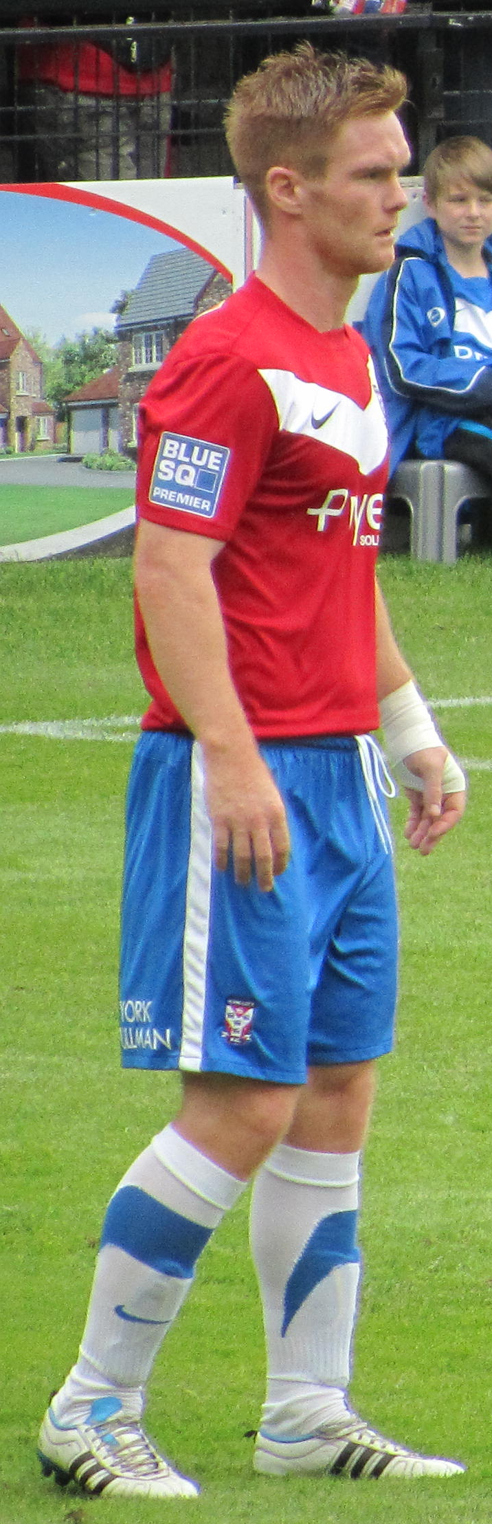 Jason Walker